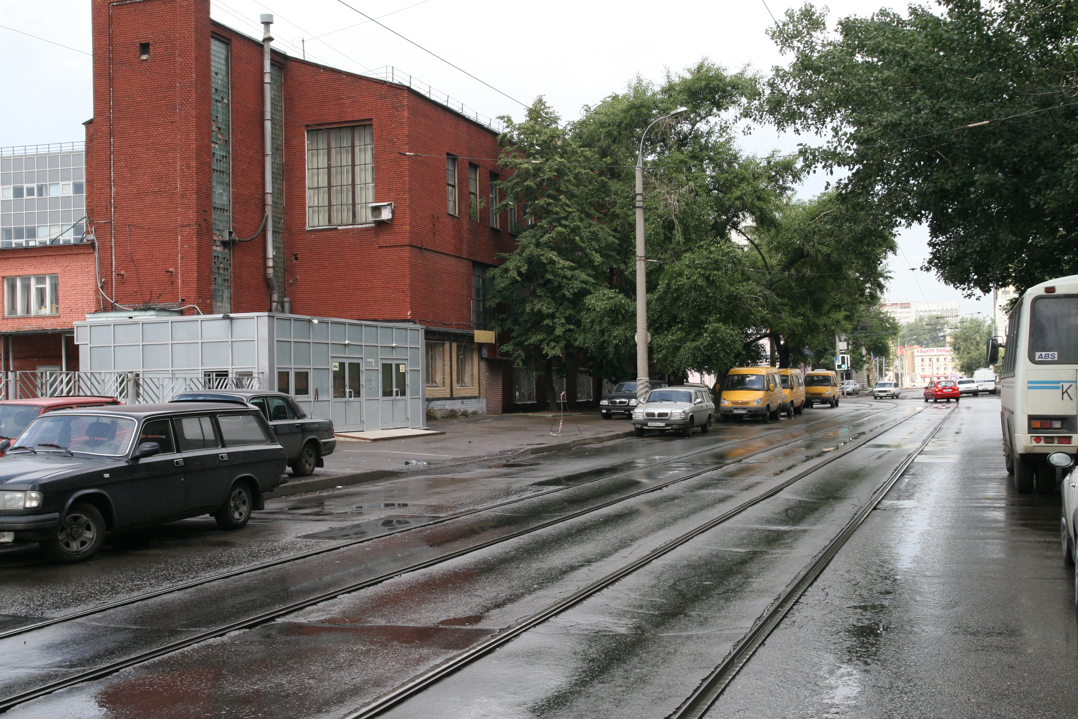 obrastsova street moscow